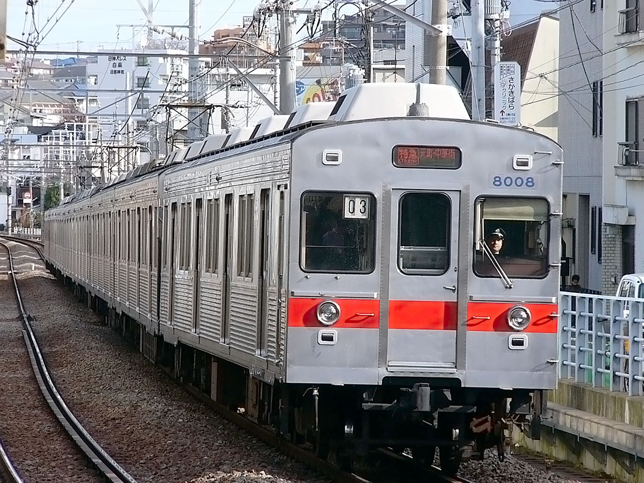 A Tokyu 8000 series EMU approaching Hakuraku Station on the Tokyu Toyoko Line in Kanagawa Prefecture, Japan